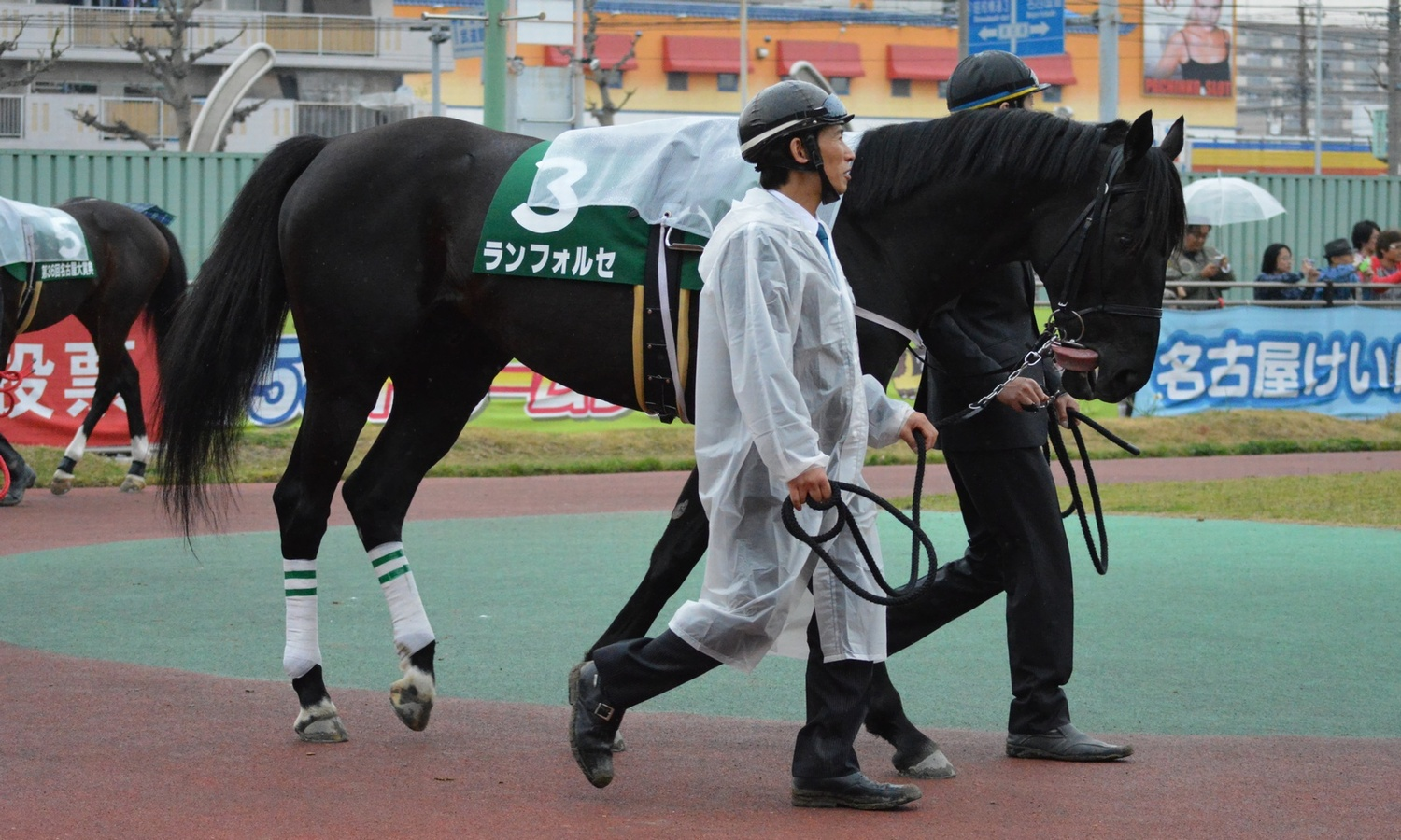 Japanese race horse Renforcer at Nagoya racecourse. Nagoya (JPN) 20 Mar 2013Nagoya Daishoten (Local Grade 3) (Dirt) (4yo+) 1m11/2f Muddy RankHorse NameOddsAgeWgtTrainerJockey1stHokko Tarumae (JPN)1/5FC48-9Katsuichi NishiuraHideaki Miyuki2ndA Shin Moreover (JPN)31/10H79-0Yoshio OkiYasunari Iwata3rdDaishin Orange (JPN)31/1H88-9Yasushi ShonoYuga Kawada4thSaimon Road (JPN)27/1H58-7Teruya TsunodaKatsuto Maruno5thRenforcer (JPN)54/10H79-0Kiyoshi HagiwaraNorihiro Yokoyama6th - 12th/omission